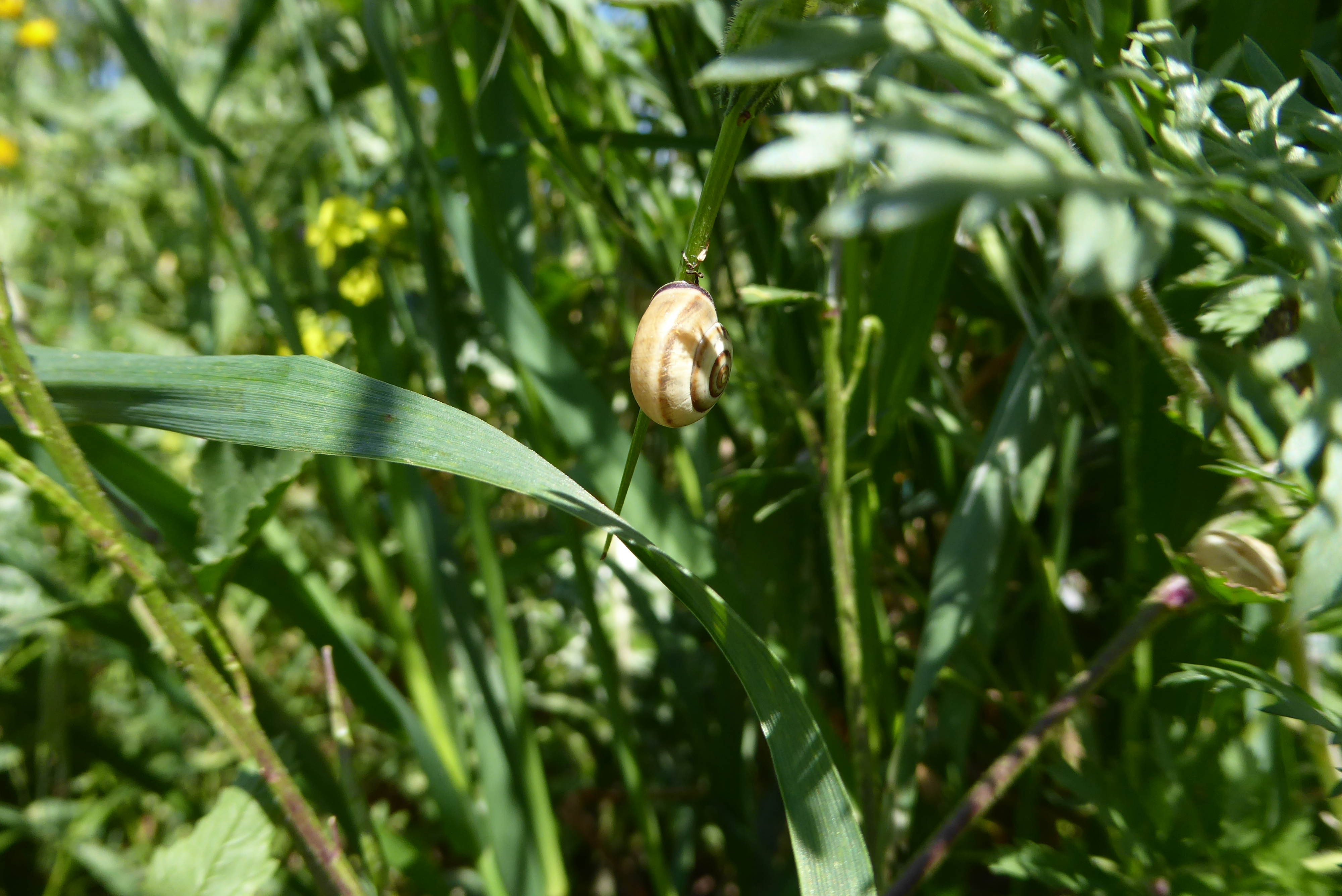 Savion blossoms